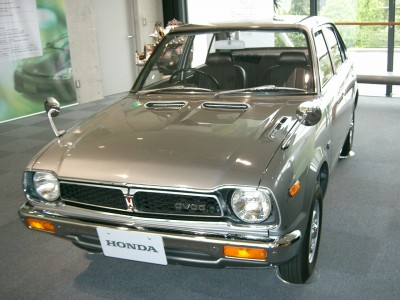 Honda Civic, 1st generation, photographed in Japan